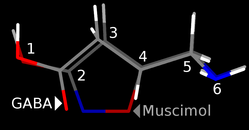 GABA and muscimol molecules can have similar 3D-conformations which are depicted in this image almost on the top of each other. Because of this, muscimol binds to certain GABA-receptors. This picture is based on the following study: Didier Michelot, Leda Maria Melendez-Howell: Amanita muscaria: chemistry, biology, toxicology, and ethnomycology. Mycological Research, 2003, nro 2, s. 131–146.